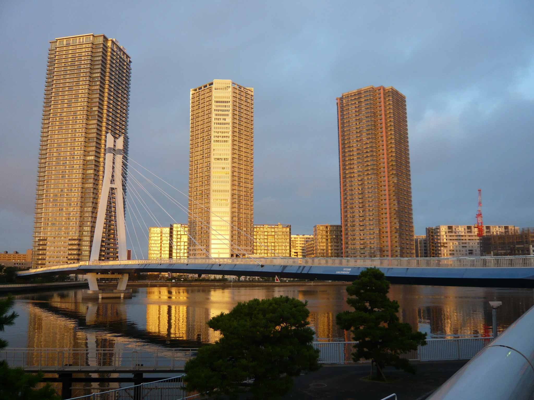 Tatsumi-Sakura Bridge in koto-ku, Tokyo, Japan.